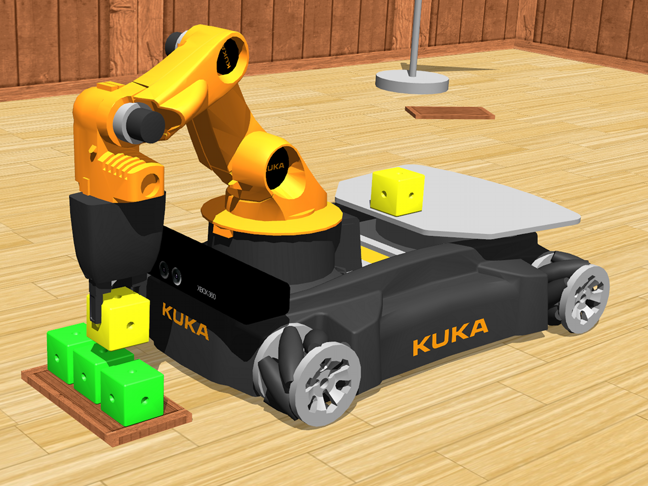 3D Virtual model including realistic physics parameters of a KUKA youBot mounted with a Microsoft Kinect in Webots